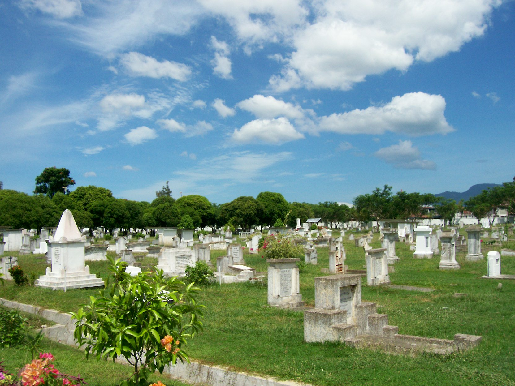 A graveyard of Dutch soldiers in Banda Aceh